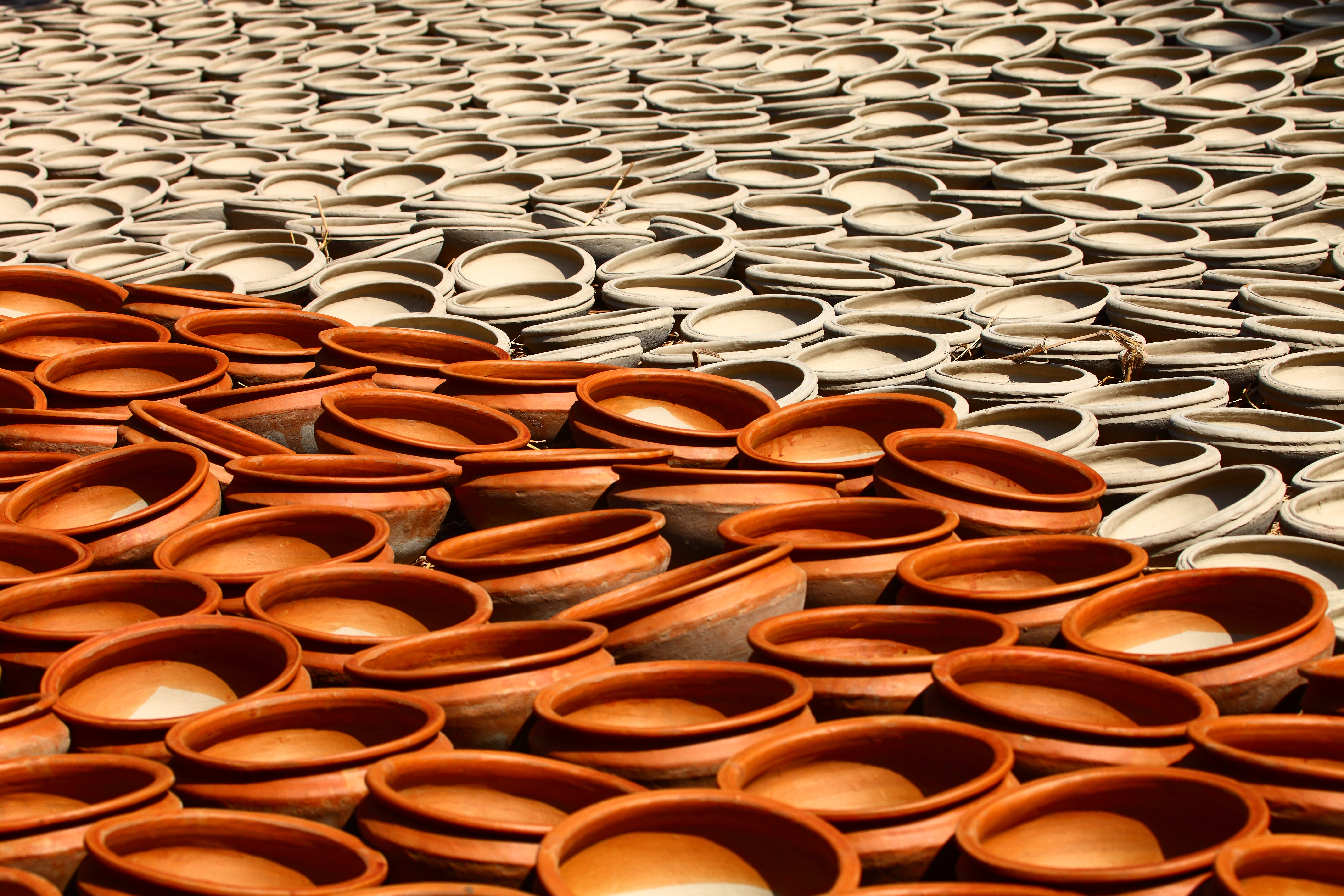 Pottery work from Balirtek, Manikgonj, Bangladesh